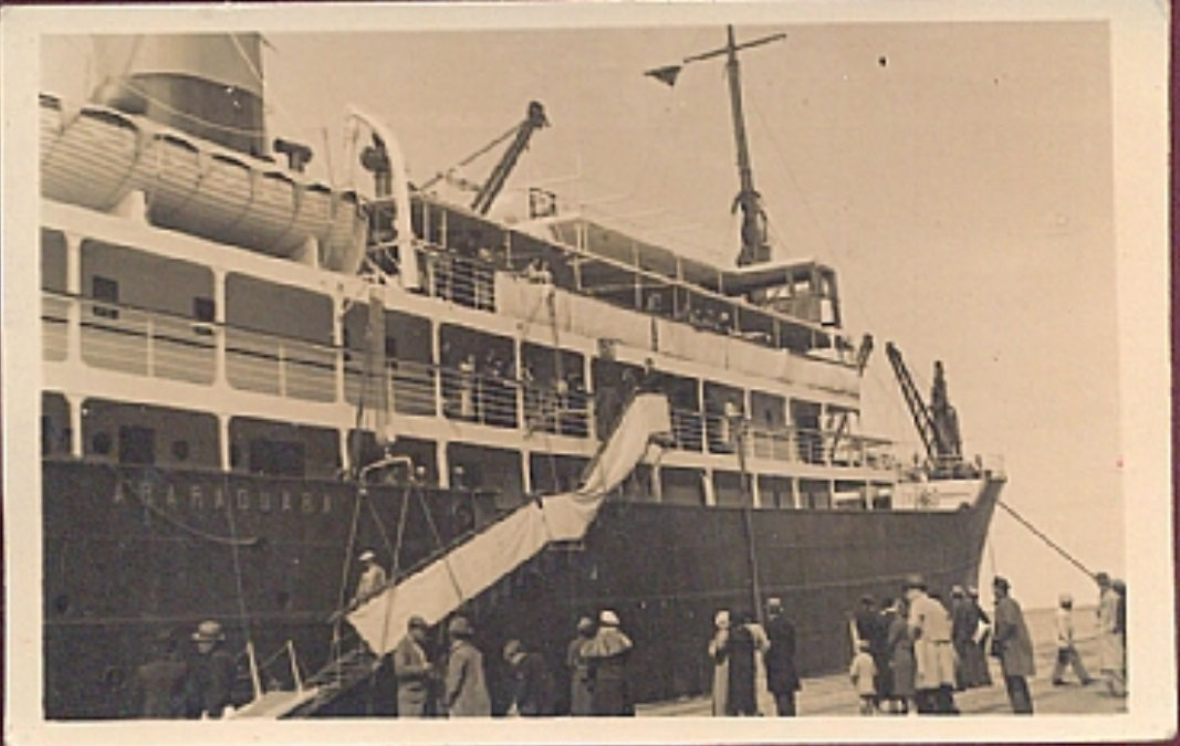 picture of passengers boarding the ship named "Araraquara". This ship was sunk by the german submarine U-507 in 1942.